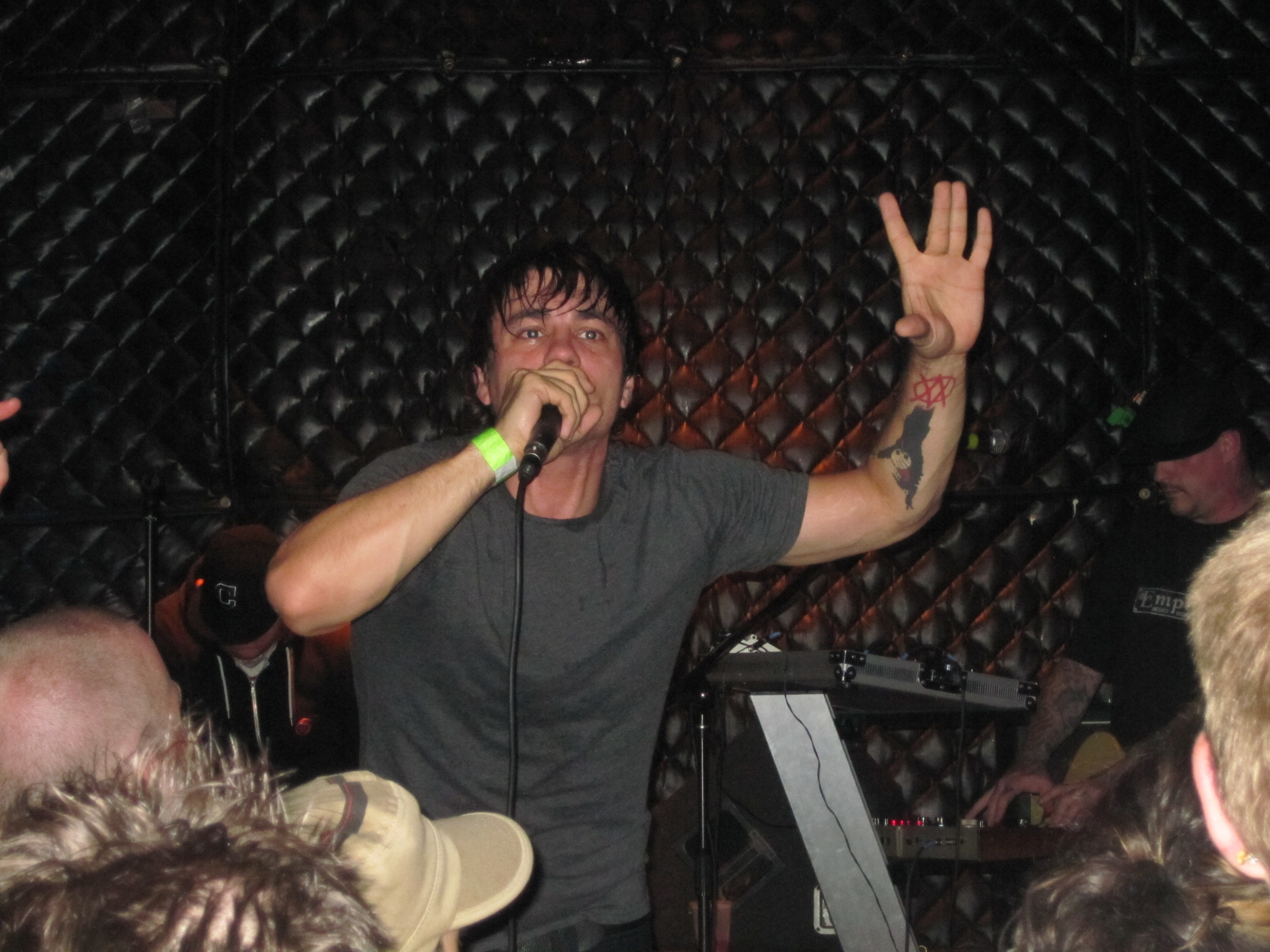 This is a picture taken of Cage from a live show at the Triple Rock Social Club, Minneapolis, MN on July 8th, 2009.